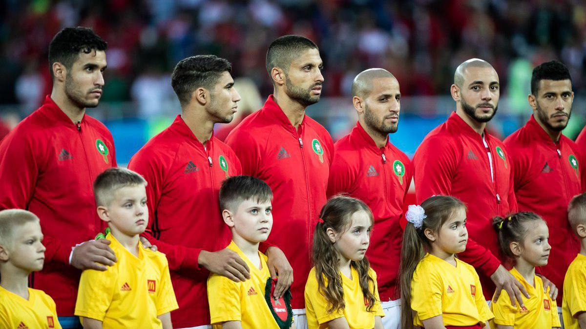 Spain-Morocco match, Group B, 2018 FIFA World Cup